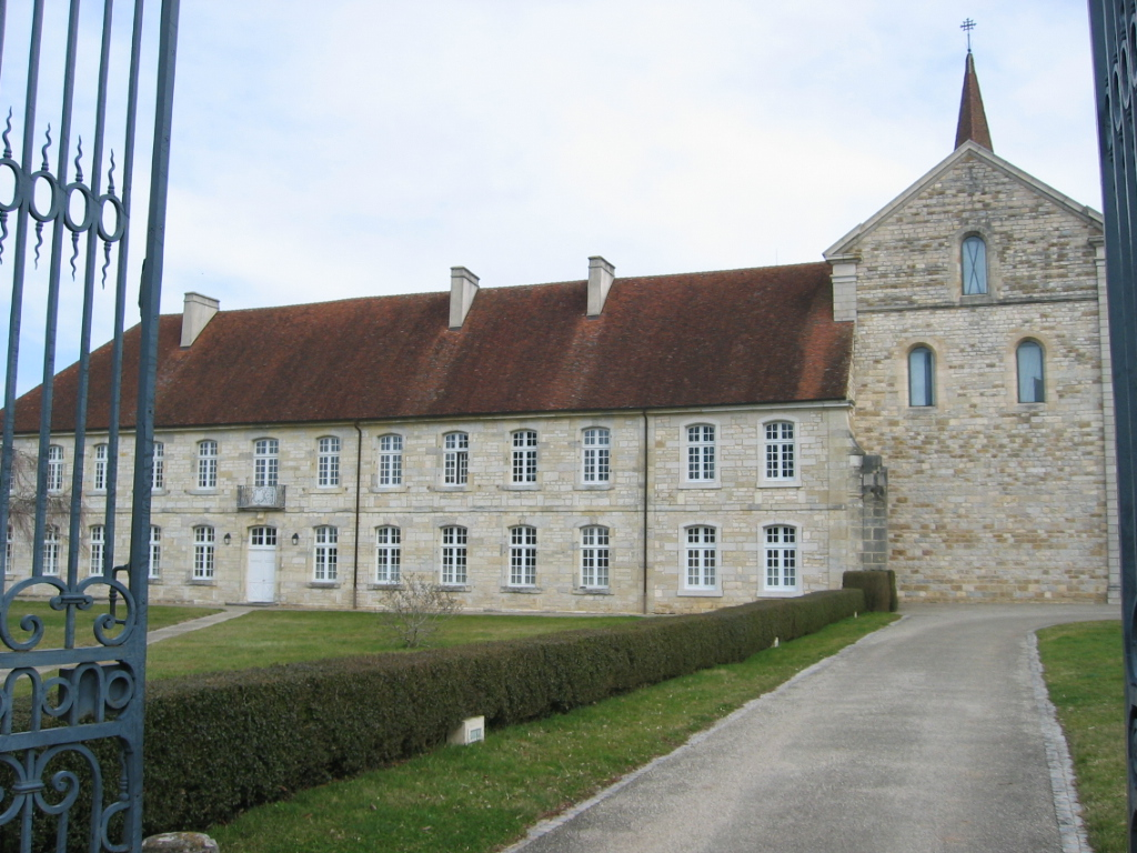 Abbaye d'Acey Jura France